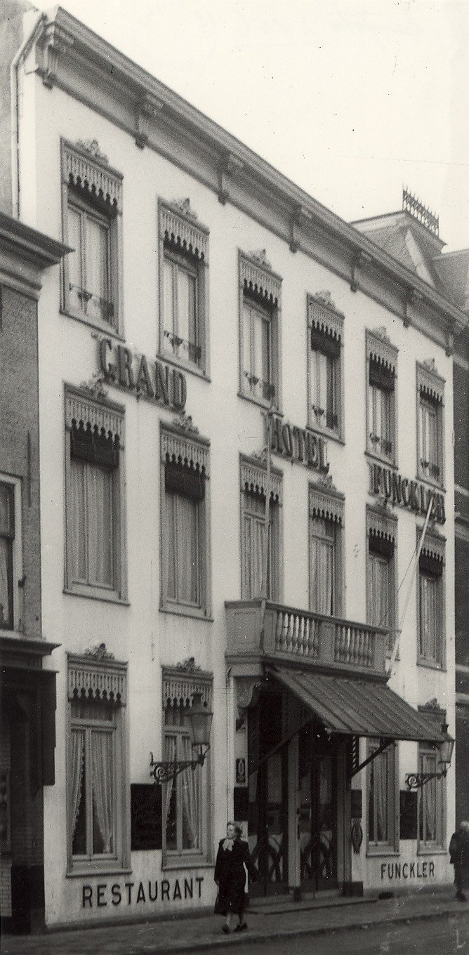 Kruisstraat 10, westzijde, "Grand Hotel Funckler". Aangekocht in 1971 van fotograaf C. de Boer. Identificatienummer 54-002456